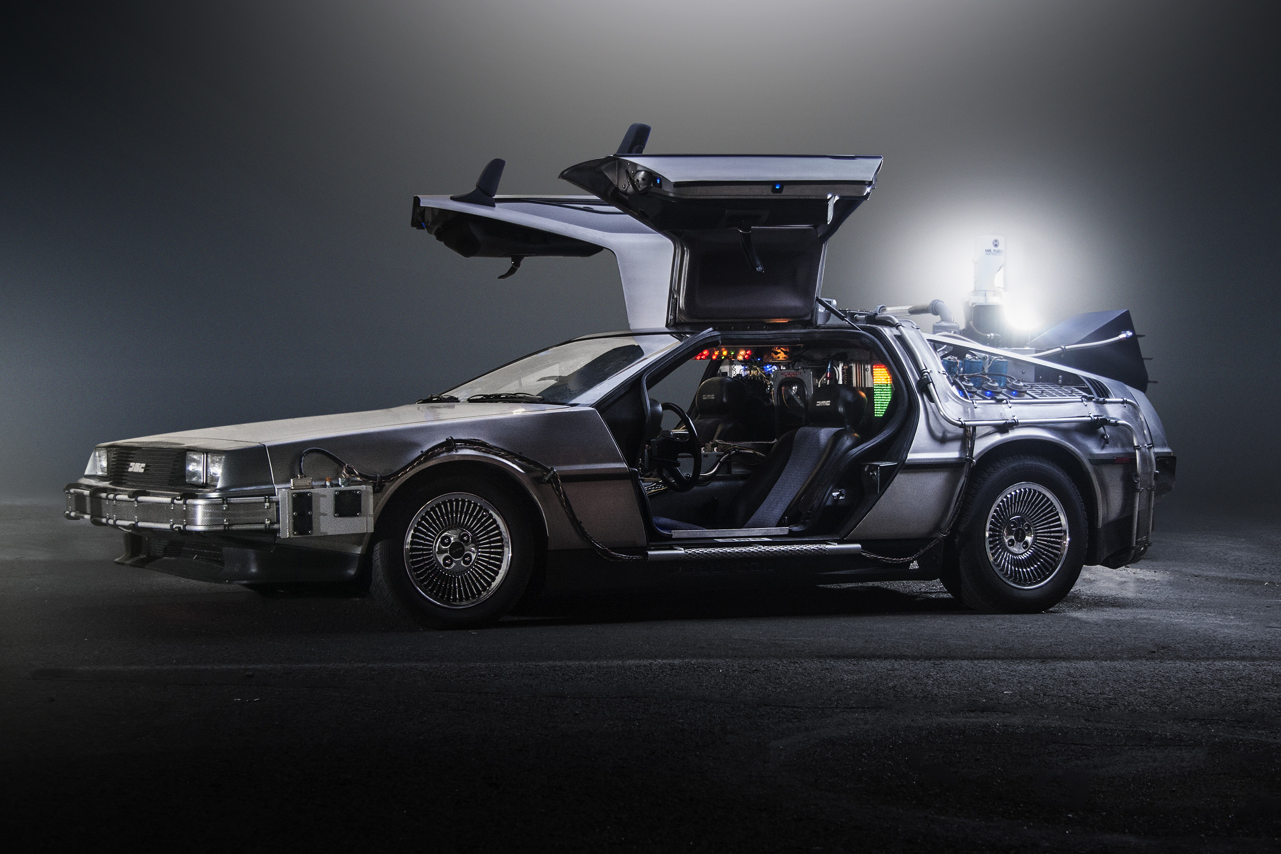 Back to the Future DeLorean Time Machine